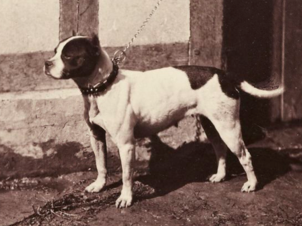 Apparently a 19th century Bull-and-terrier dog. “Zoological garden of acclimatization (Bois de Boulogne). Dog show (May 1863). L. CREMIÈRE, PHOTO from the House of the Emperor, 28, rue de Laval. PARIS. _ PRIZE_ 1 Category. Name: Rose. 6 Class. Owner: Mrs. d' Onsembray. Breed: Bull-Terrier. 15 ”